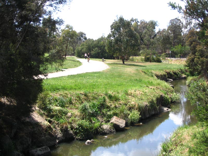 Gardiners Creek Trail and Gardiners Creek in Gardiners Reserve, Burood, Victoria, Australia